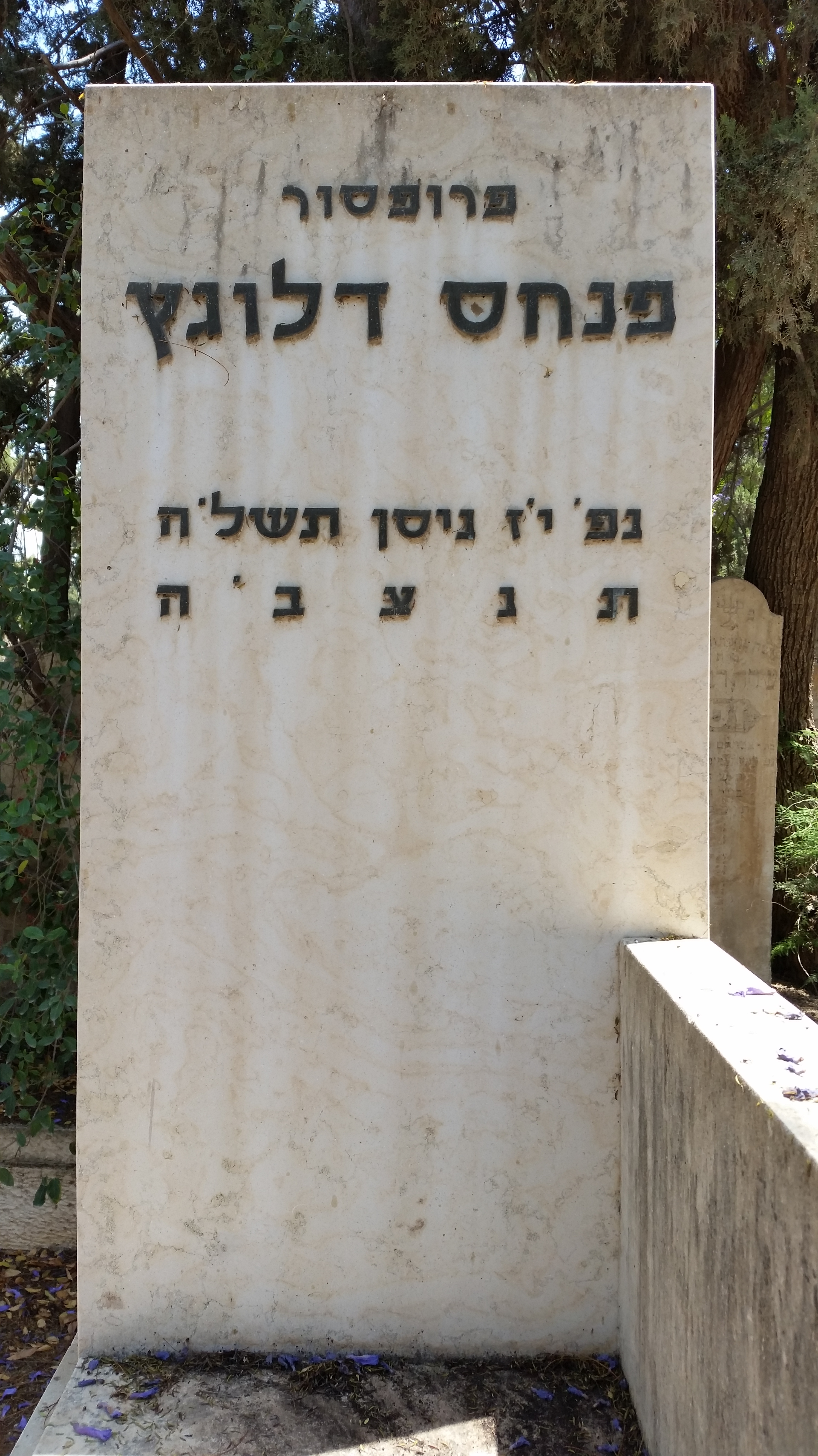 Archaeologist Pinhas Dlougaz's grave in Nahalat Yitzhak Cemetrry